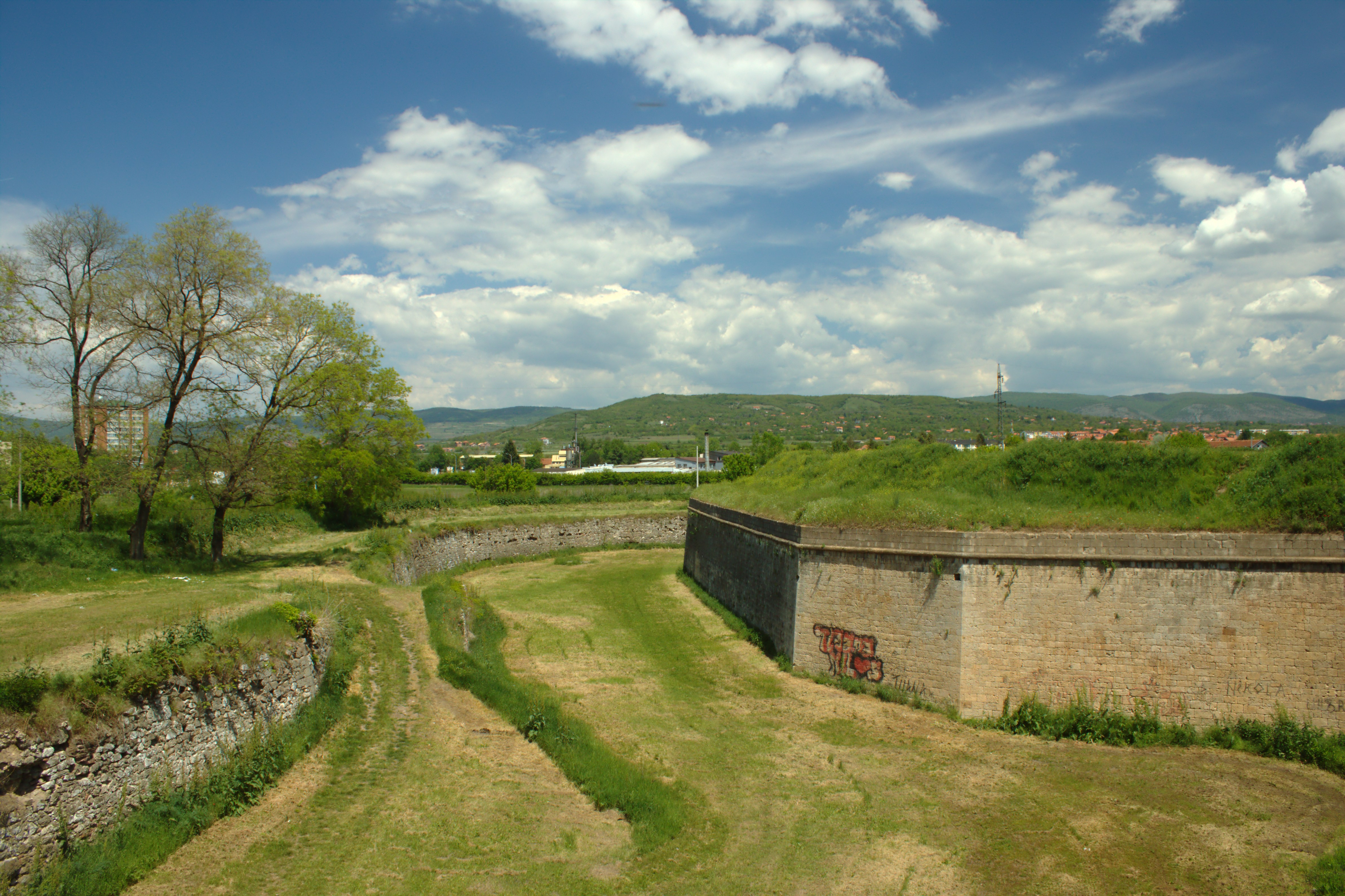 Northern side of the Niš fortress walls, Niš, Serbia